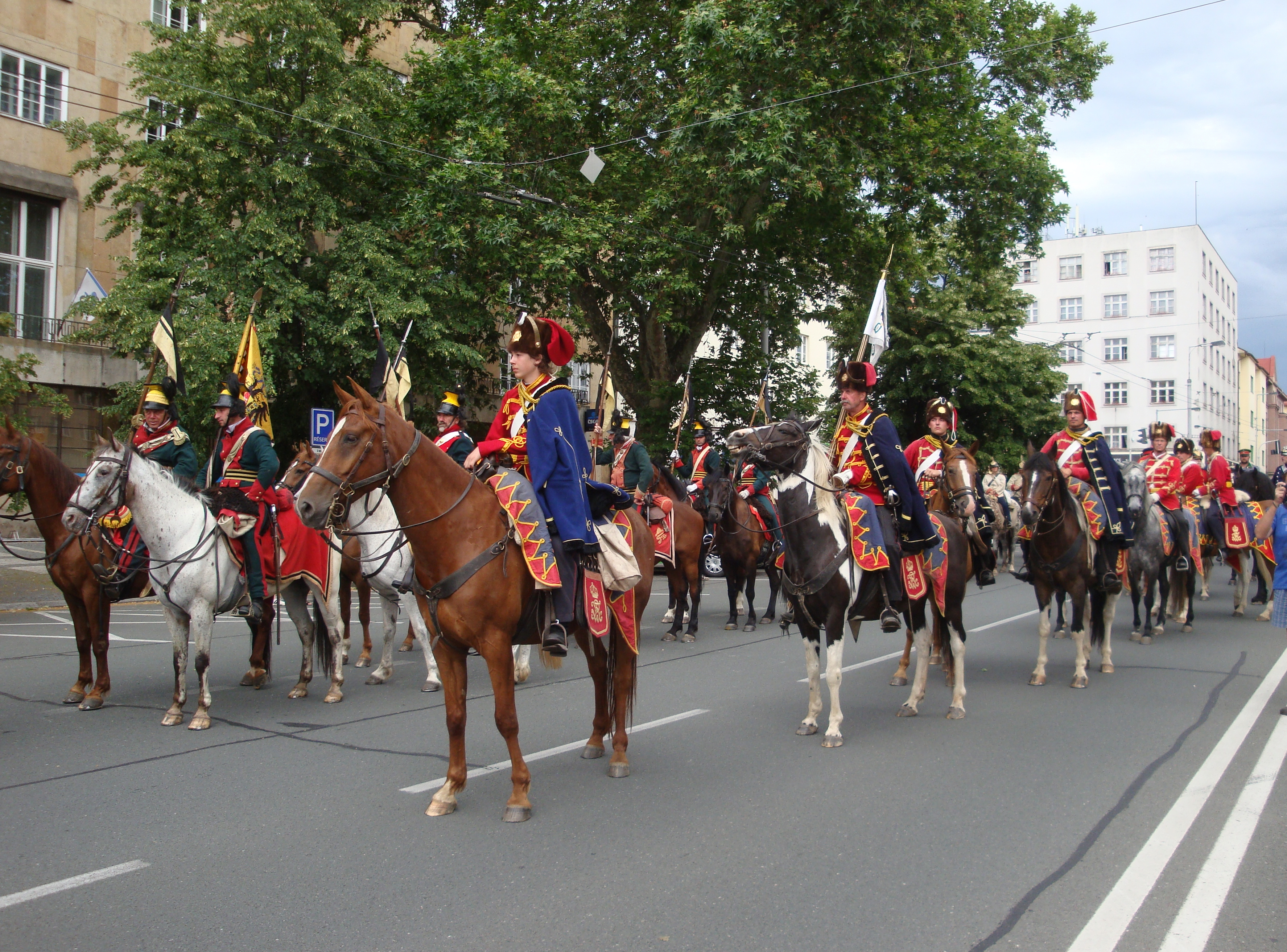 Battle of Königgrätz, reminder 2016